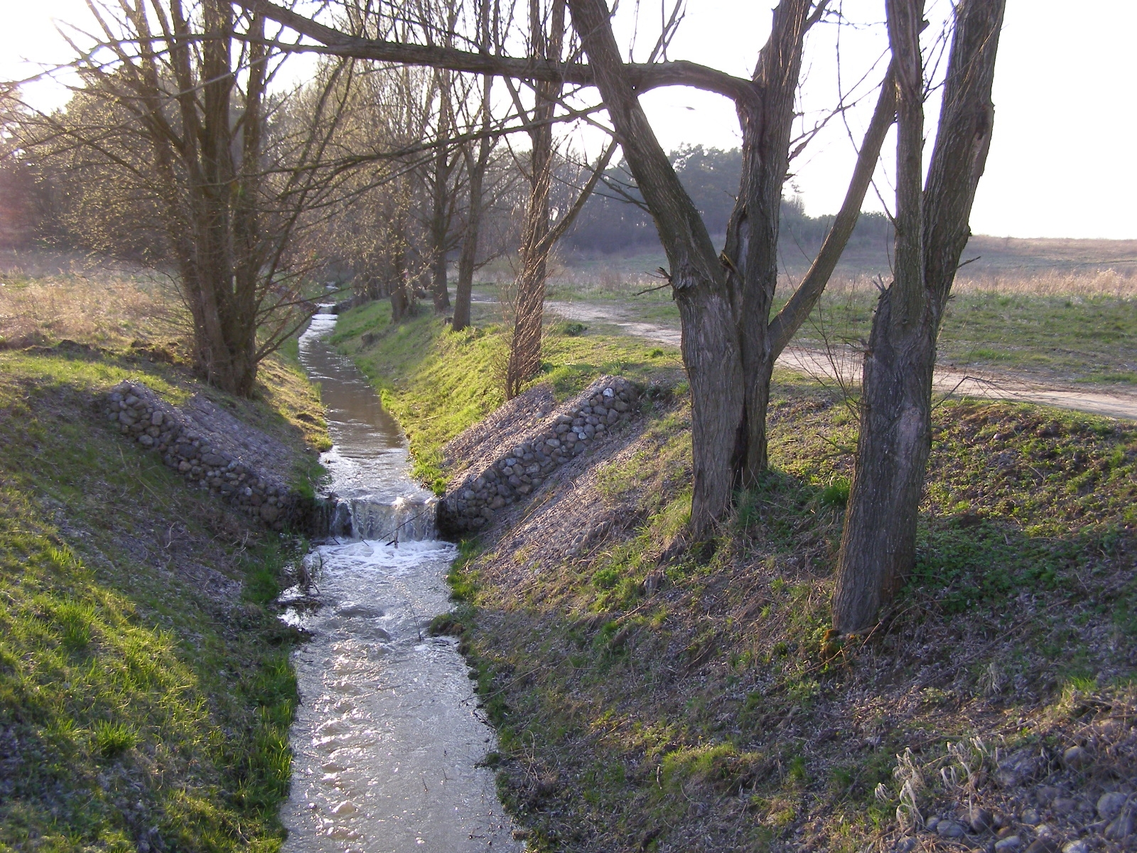 Gdańsk - Oruński Stream in Zakoniczyn